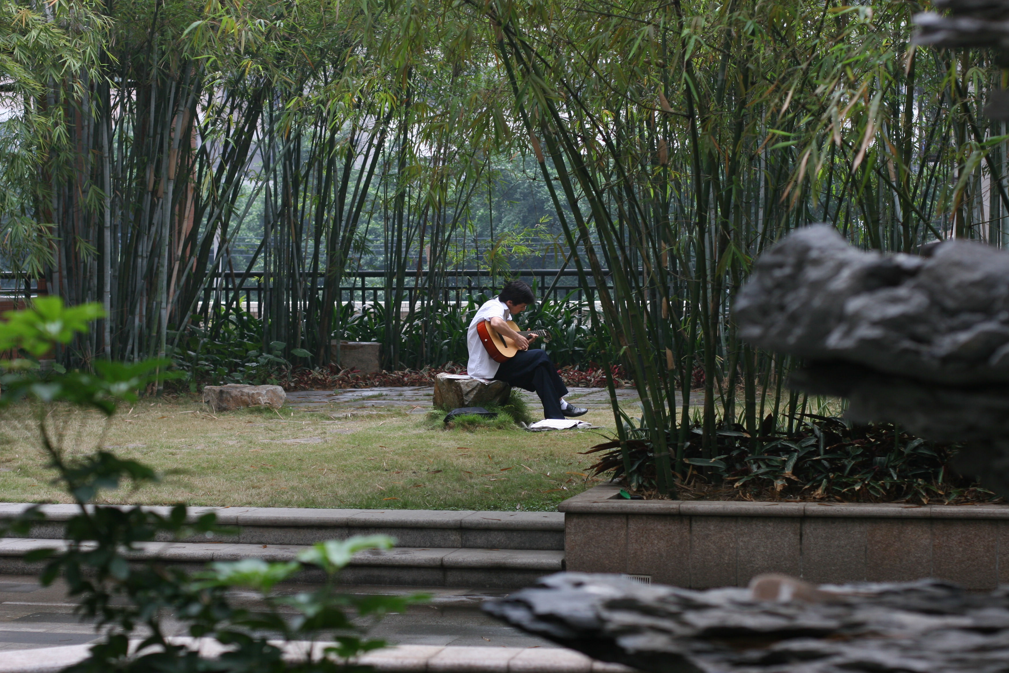 The Cuiyuan Garden in Guangzhou Xiehe High School